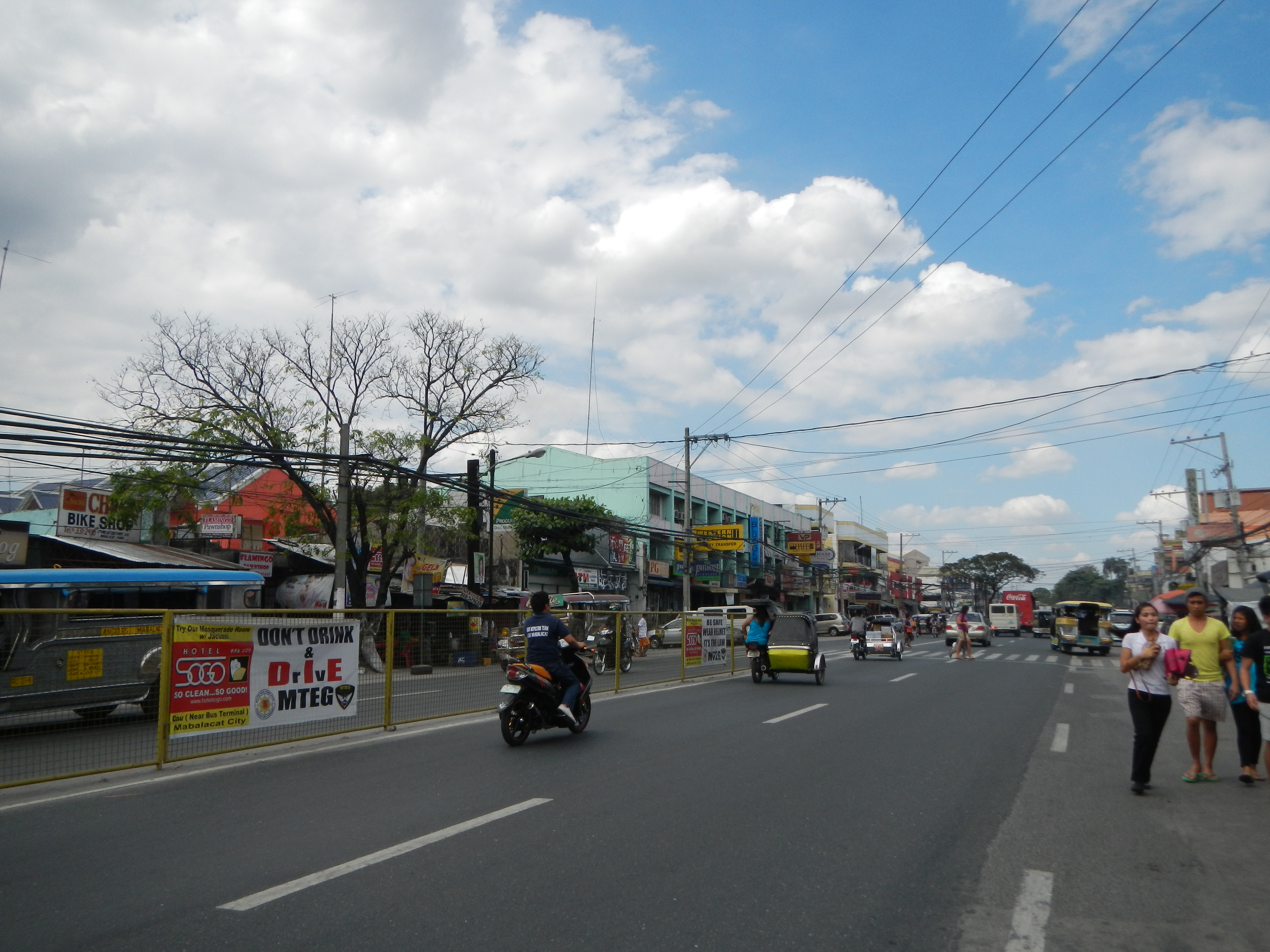 Mabalacat, Pampanga is a first class city in the northern part of the province of Pampanga, Philippines.[1][2][3]Coordinates: 15°12'46"N 120°32'11"E - Mabalacat Central Bus Terminal, New Town Hall & Xevera Mabalacat[4]Xevera, nestled in Tabun, Mabalacat, Pampanga is inspired by Spain's classic architecture.[5][6]Coordinates: 15°14'41"N 120°33'41"E